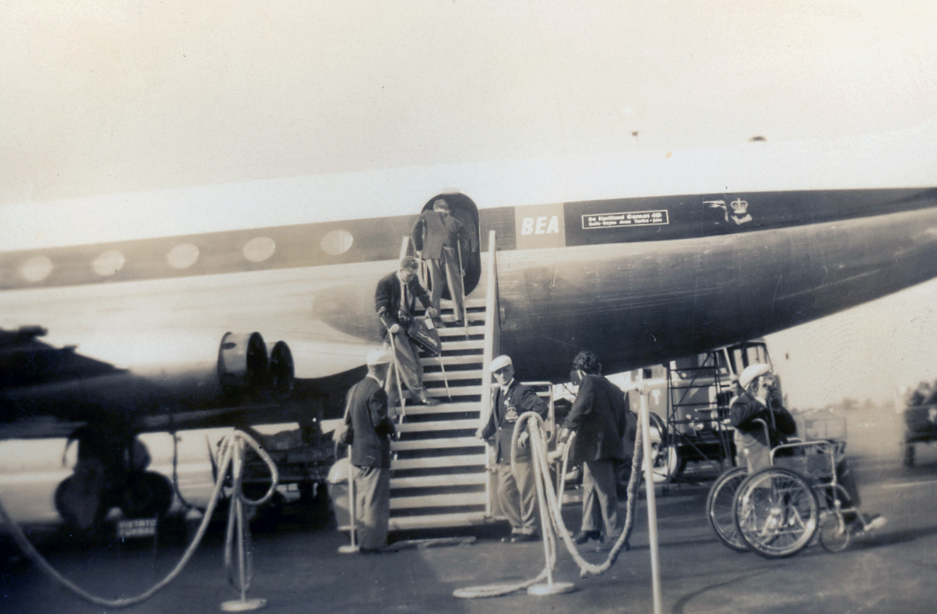 Australian Paralympic Team disembark from their plane on arrival in Rome for the 1960 Rome Paralympic Games. At the bottom of the stairs team official John "Johnno" Johnston in a white gap, turns towards the camera to talk to Bill Mather-Brown, on crutches. At the time of this photo, it was thought beneficial even for people with paraplegia to use crutches and leg calipers to stand and even 'walk'. (Mather-Brown, however, had polio, and so had some movement and control in his legs.)